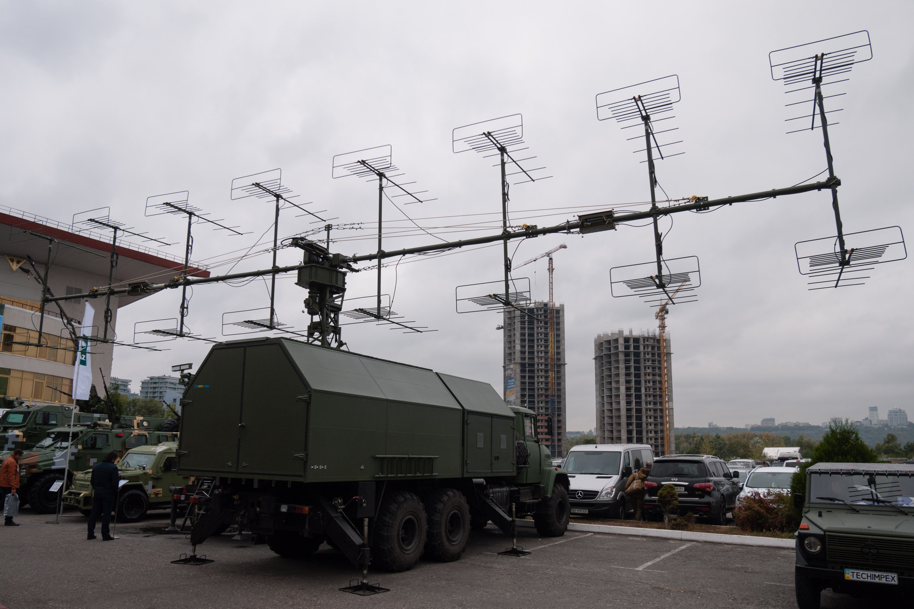 P-18 "Malakhit" radar (Ukraine)